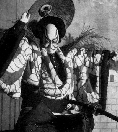 Komazō Ichikawa VII (1833–1874) as Watō Nai in Kokusen-ya Kassenn Act II "Senri-ga-Take"